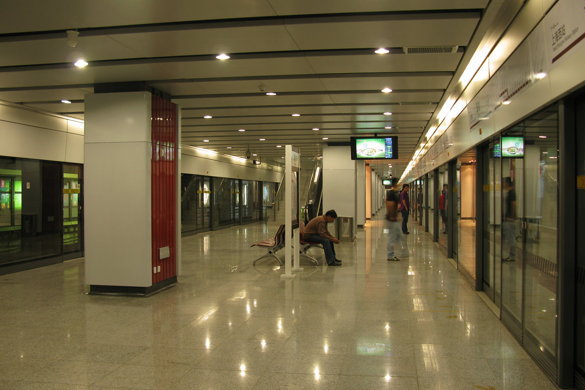 Line 11 Island Platform of Zhenru Station, Shanghai Metro